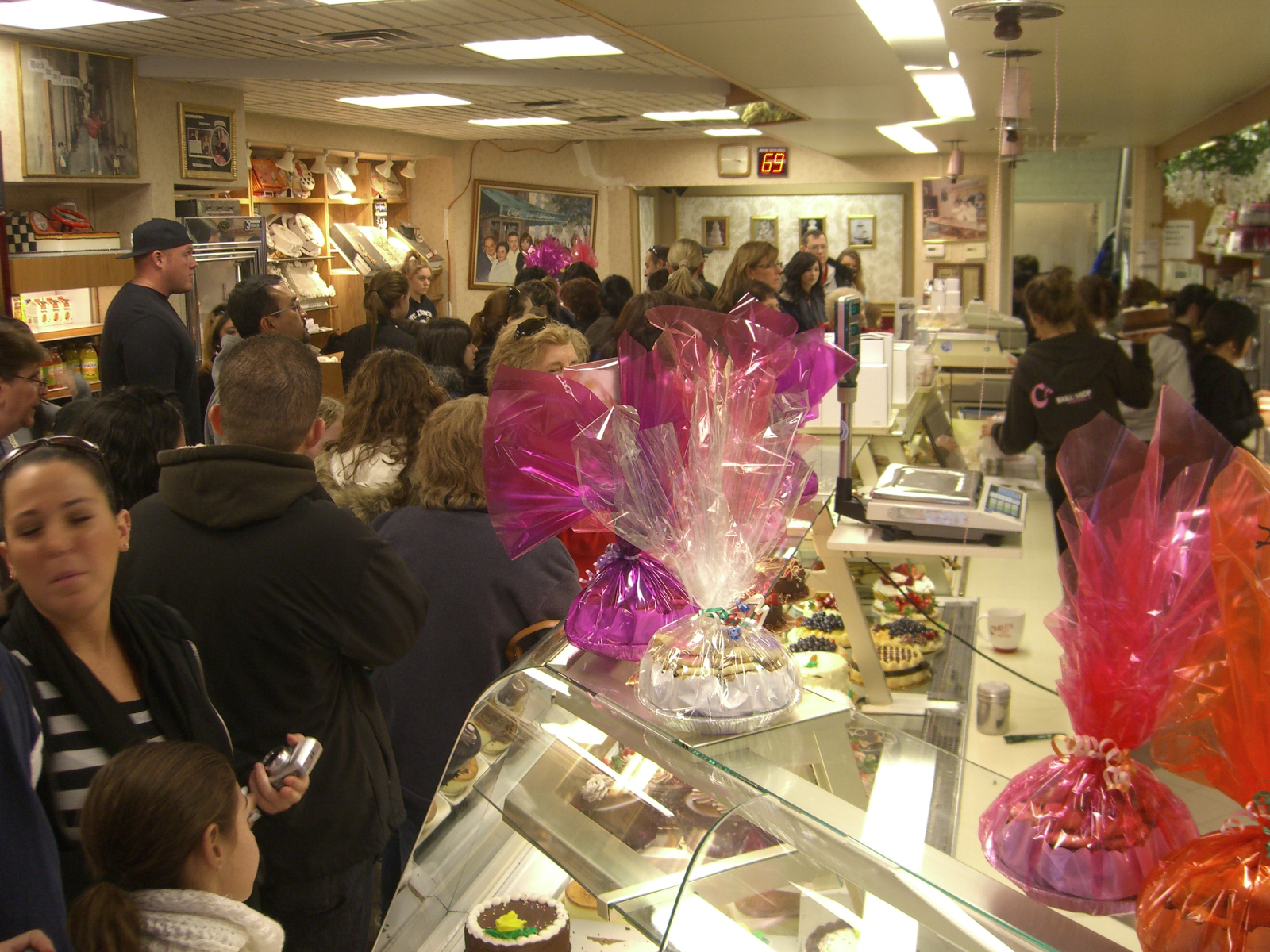 Carlo’s Bake Shop in Hoboken, New Jersey, The shop, which is located on Washington Street between 1st Street and Newark Street, across from City Hall, is the setting for The Learning Channel’s reality television series, Cake Boss. Photo by Luigi Novi. This photo may be used for any purpose, provided that the photographer is visibly credited in each instance where it is used. For further information on the Licensing requirements (See Licensing information below), contact me here.